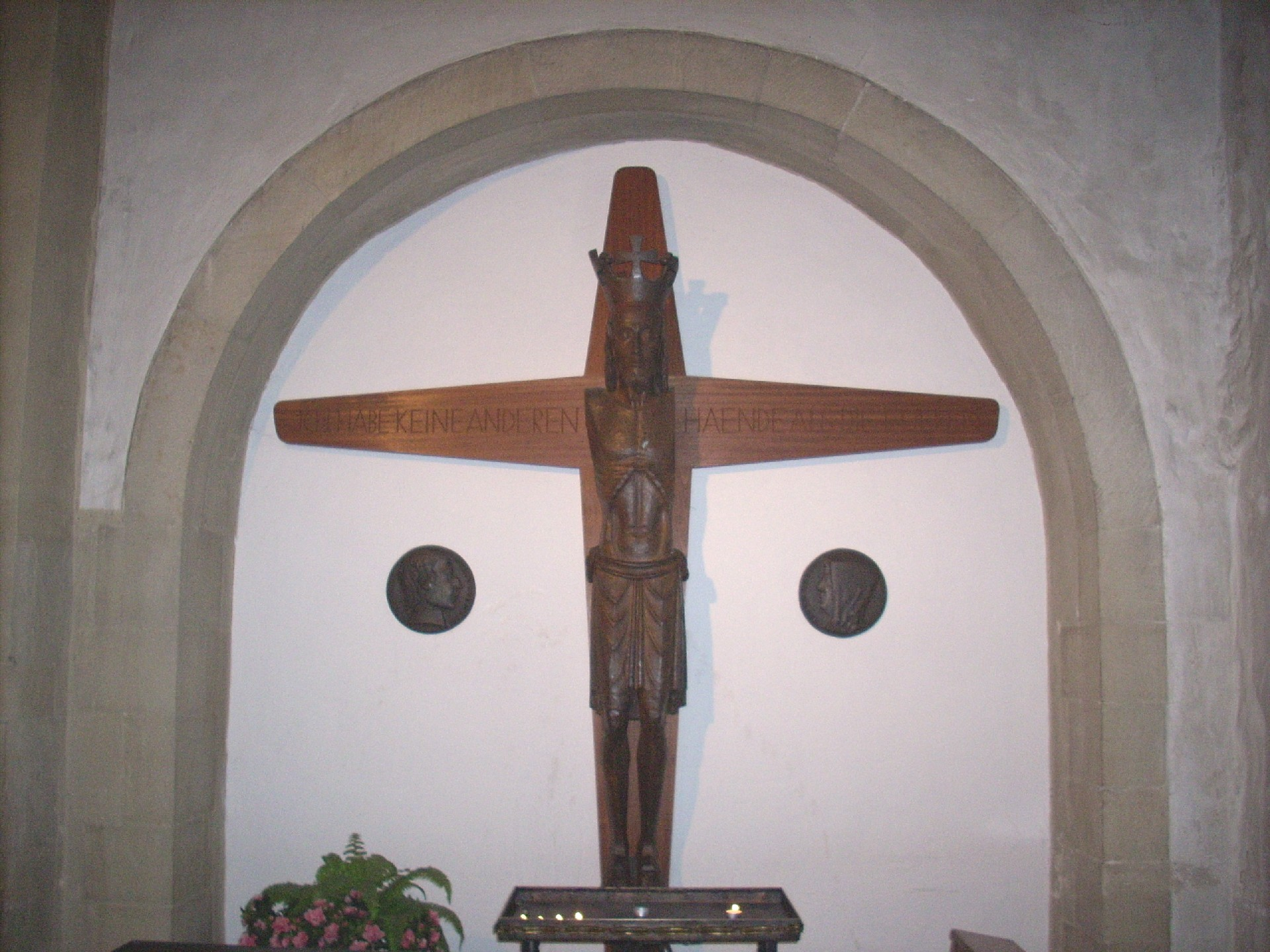 St. Ludgeri Münster: I've got no hands but yours